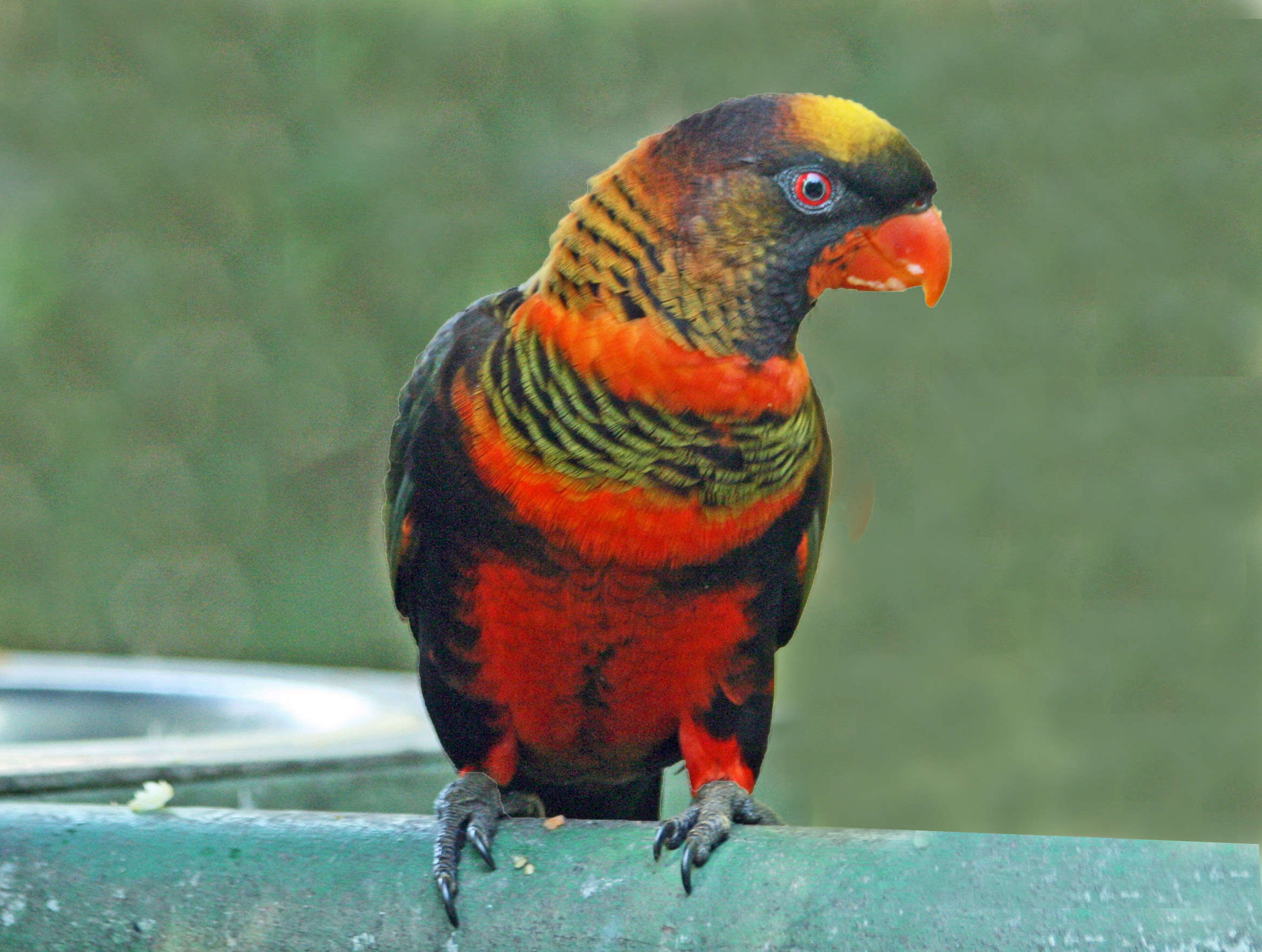 Dusky Lory (Pseudeos fuscata) - Birds of Eden aviary, South Africa